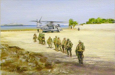 A column of Marines lug their packs out to the waiting helo in Haiti to provide humanitarian relief as part of "Operation Unified Response" after the disastrous earthquake in 2010. The figures in the background at right are a couple of Haitian onlookers and a Marine crouched down as part of the security perimeter. Sketch by Sgt. Kristopher Battles, USMC